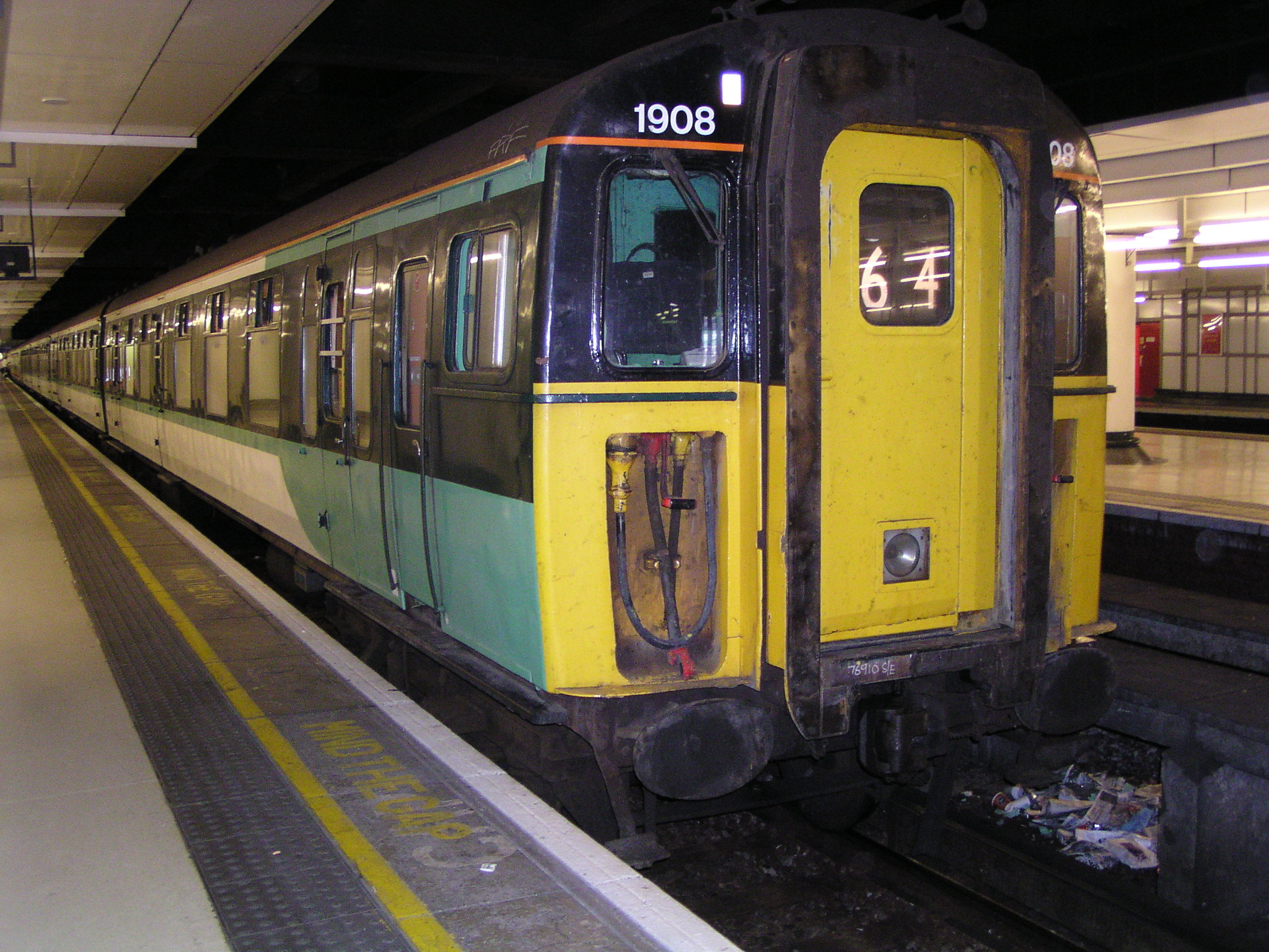 This image was copied from (Image:1908 at London Victoria.JPG). The original description was: BR Class 421/6, no. 1908, at London Victoria on 15th August 2004. This unit was one of eight modified 'Phase 1' unit fitted with Mk.6 motor bogies. It was also one of only four 'Phase 1' units to be repainted in South Central livery. It was withdrawn in October 2004 and has since been scrapped.